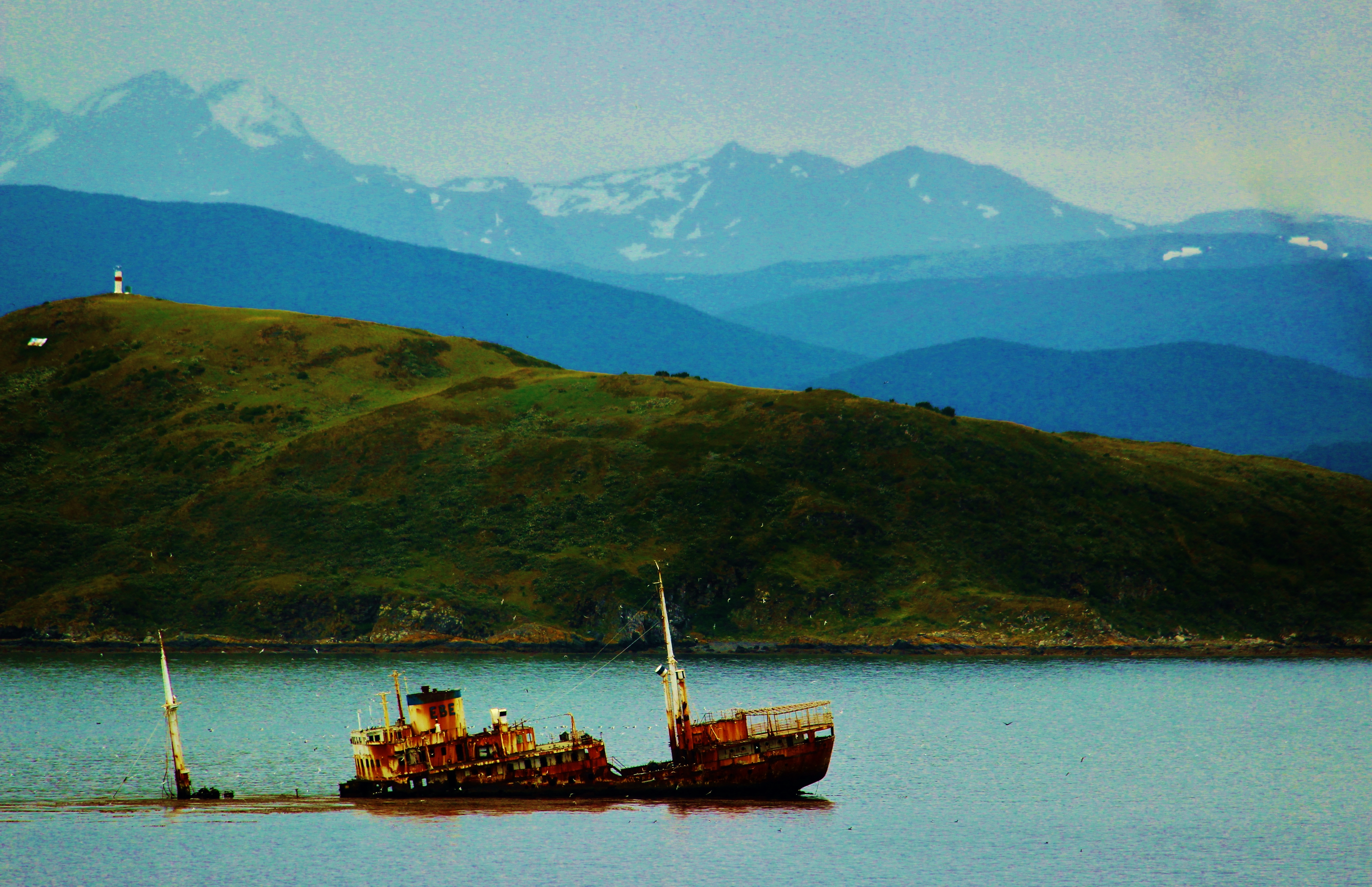 10 Year Old Ship Wreck in Southern Chilean Waters